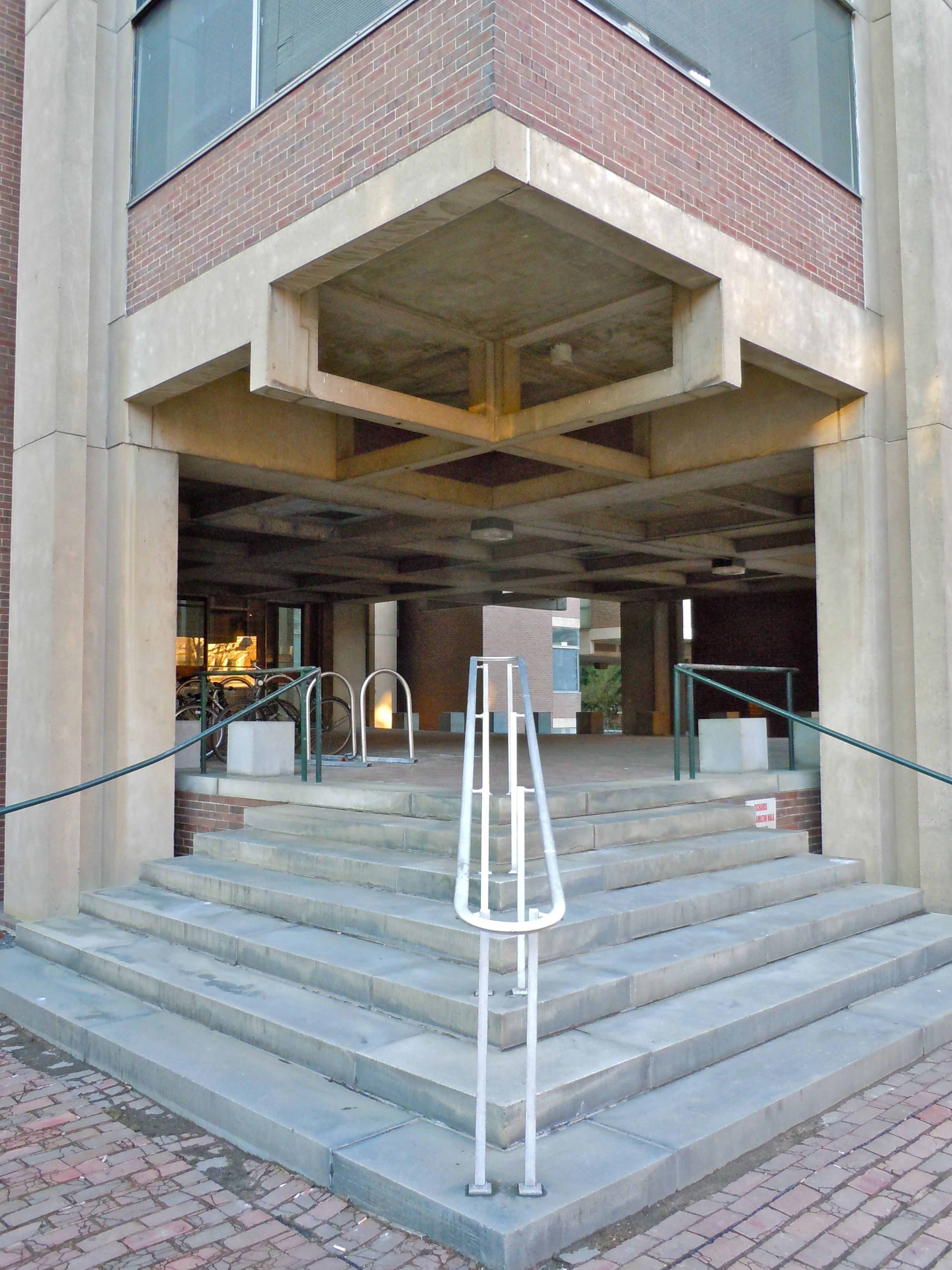 Entrance porch at Richards Labs. This is from the northeast, but there is a matching entrance that would give "the same photo" from the northwest.